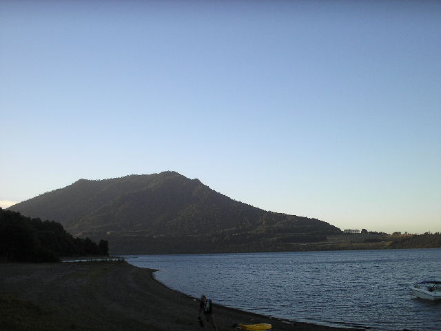 Tralcan from a beach in front a hotel on the south side of Riñihue Lake